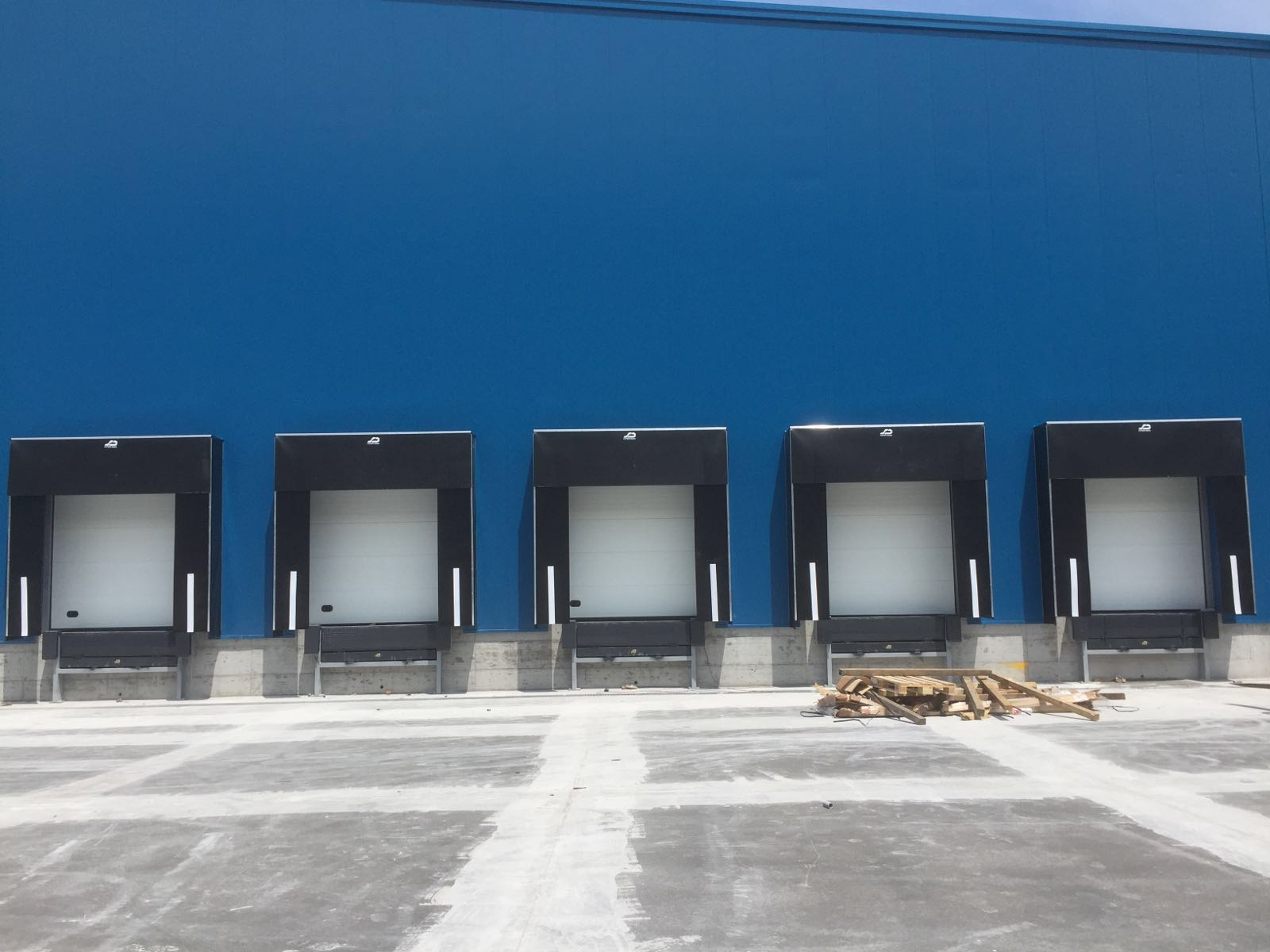 Sectional doors for industry